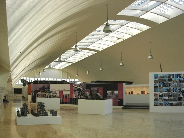 Lampisteria